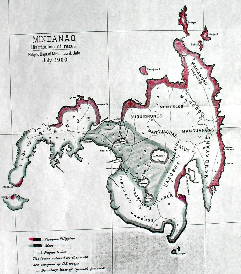 A 1900 map of Mindanao Island, and adjacent islets of the larger Mindanao islands group, in the southern Philippines. Map shows the distribution of races and tribes of Mindanao in their traditional homeland — in 1900, 2 years after 300 years of Spanish colonialism ended with American acquisition. From the Annual Report of US War Department for 1900, which is one of the earliest maps of Mindanao drawn by the Americans.